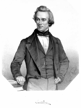 Image of Lovell Augustus Reeve (1814-1865)